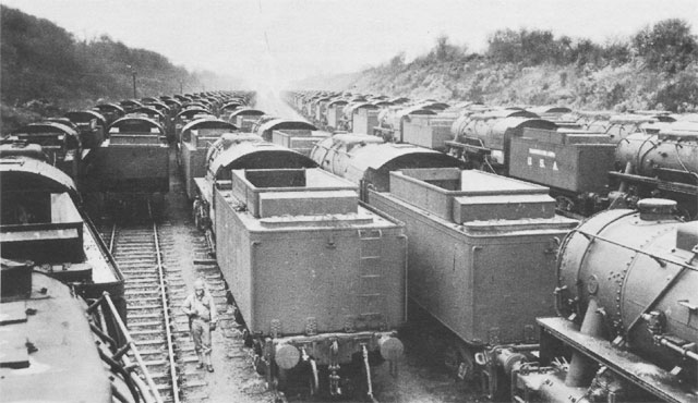 Ruppenthal, Logustic Support of the Armies, p. 151 [1]